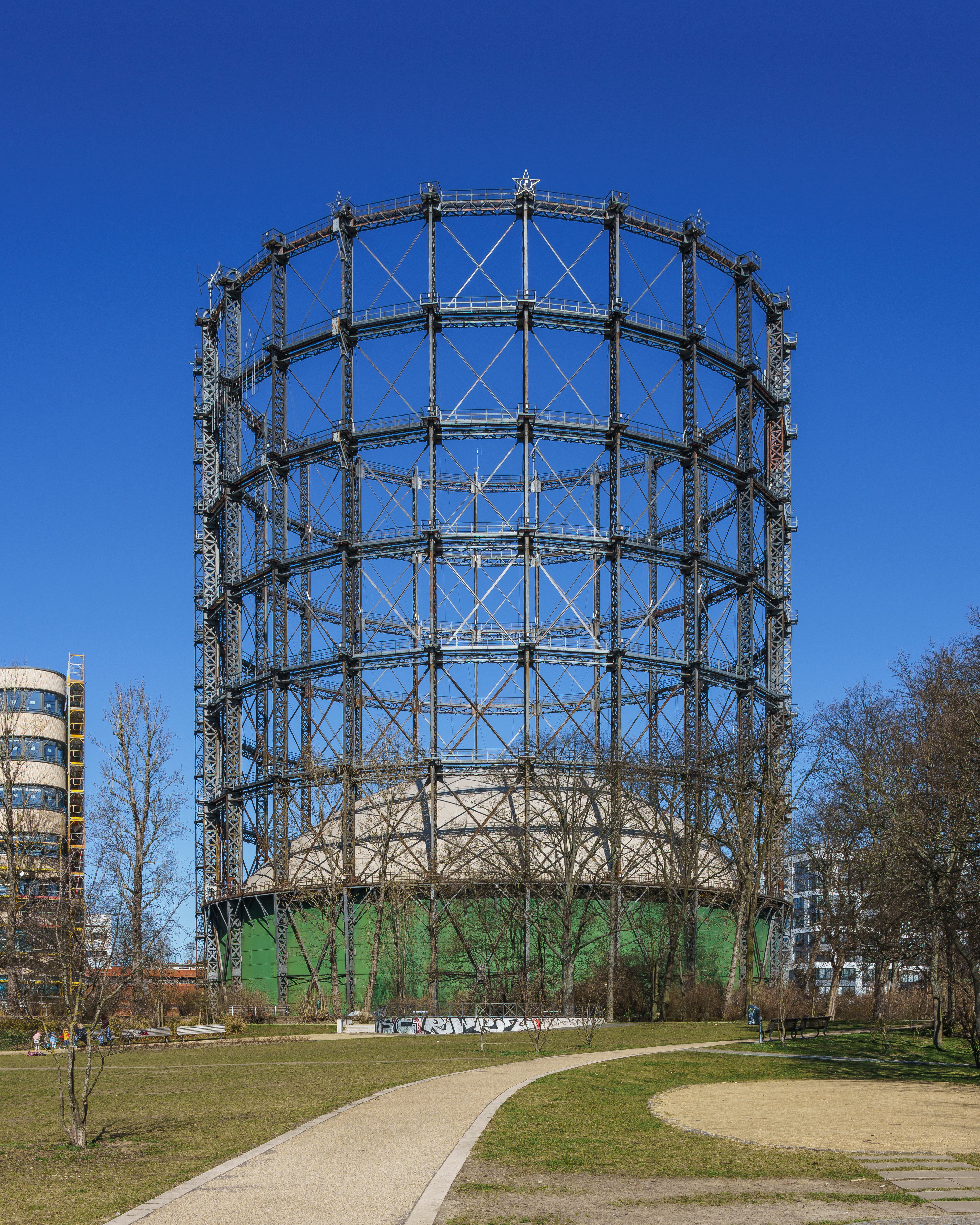 Former Schöneberg gas holder in Berlin